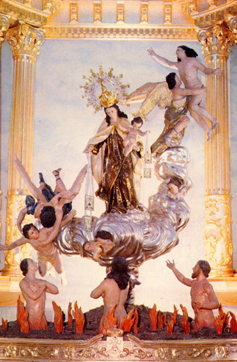 This shows The Virgin and The Child being present while souls awaiting purification are brought out of Purgatory and into Heaven.